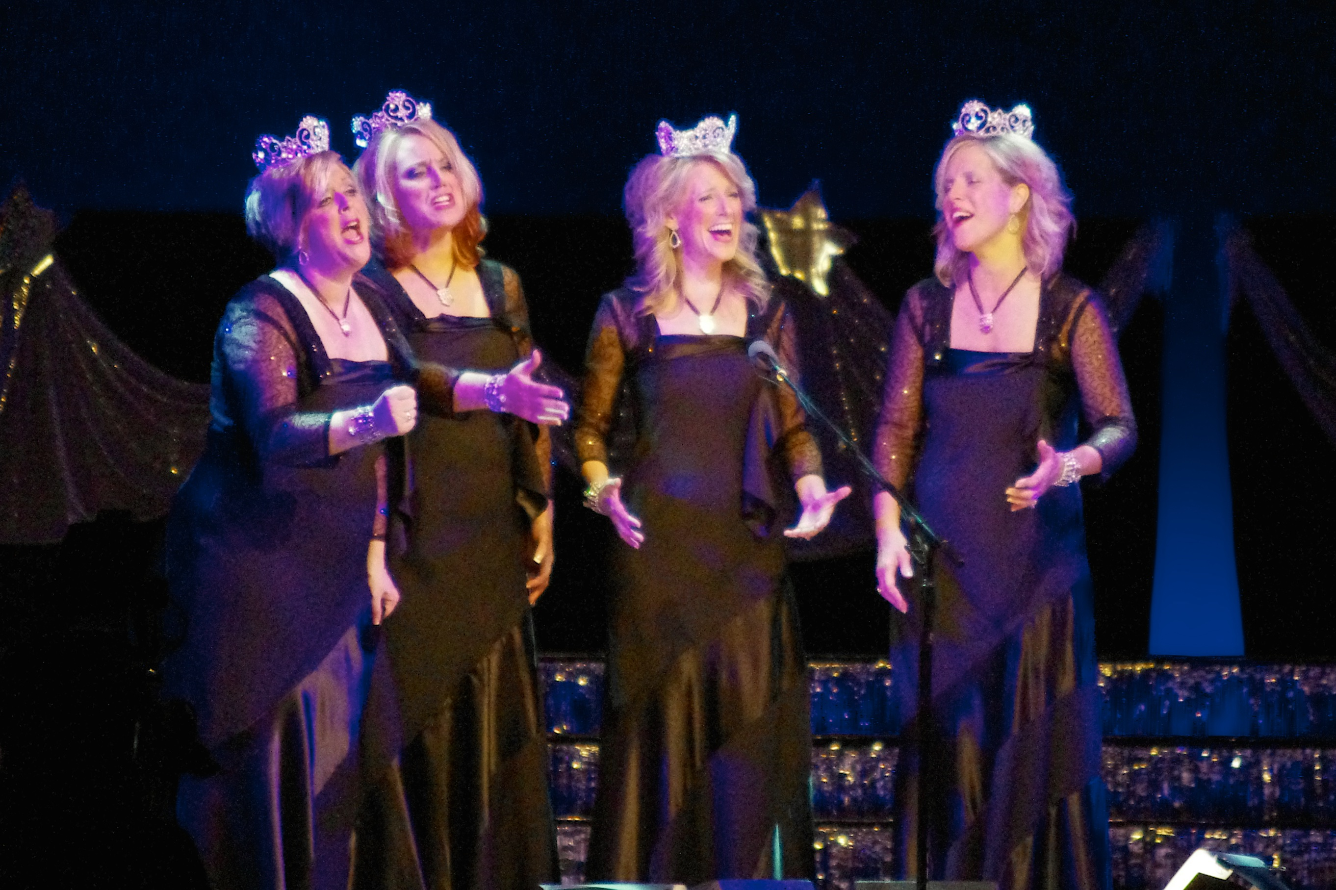 Moxie Ladies quartet performing at the 2011 Sweet Adelines International "coronet club show" in Houston, Texas